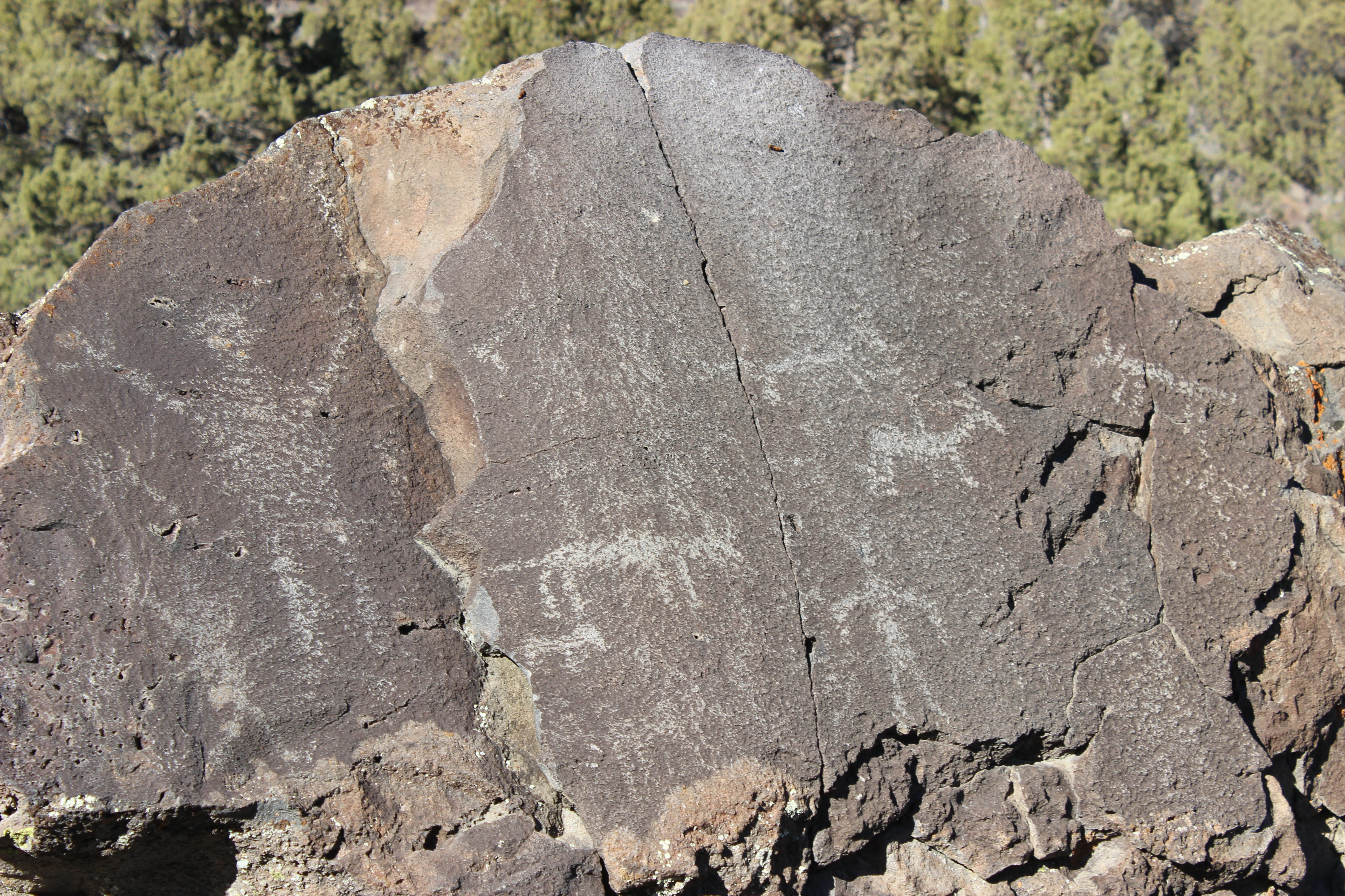 Petroglyphs located near the summit of Picture Rock Pass in south central Oregon